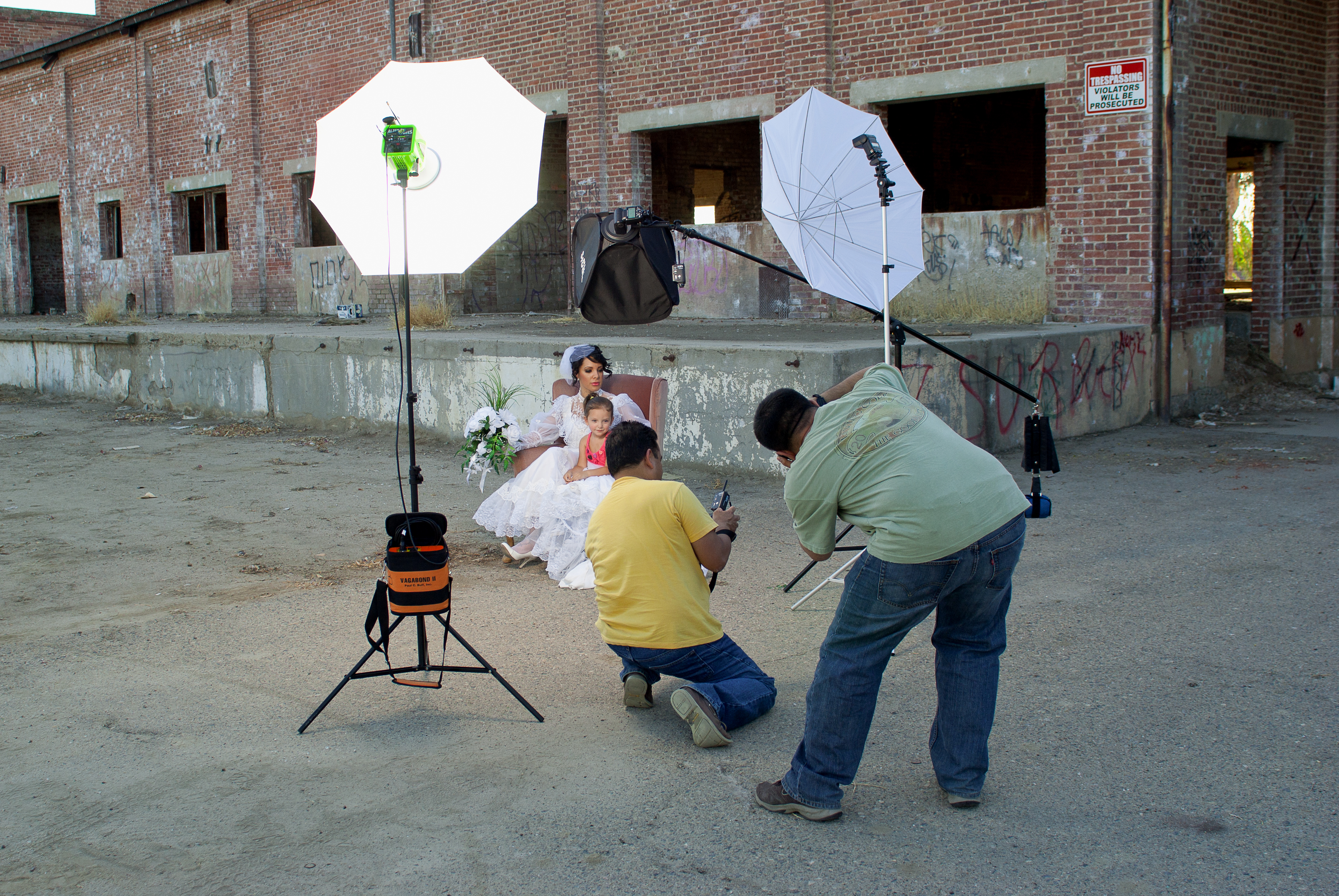 Behind the Scenes video